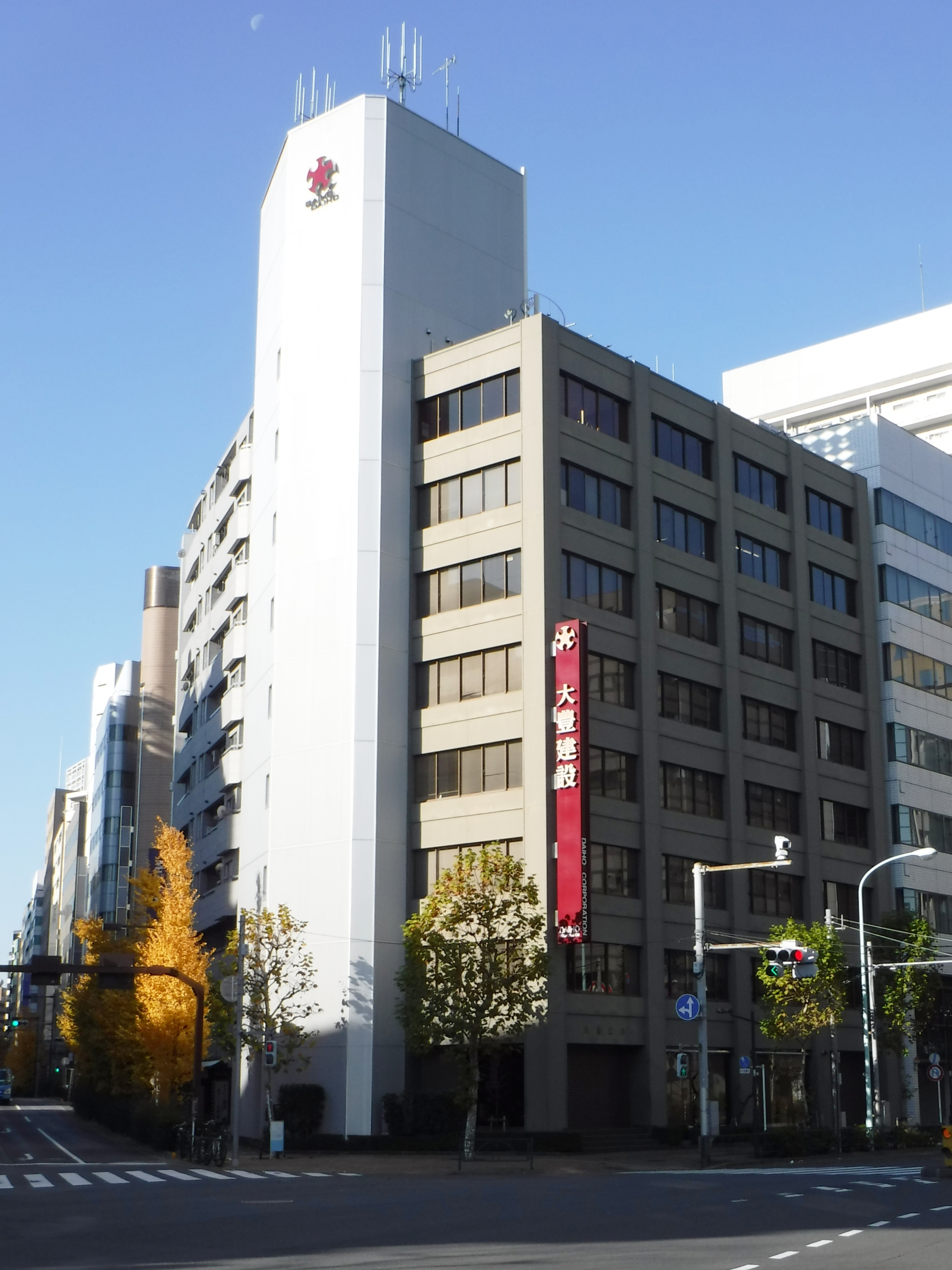 The headquarters office of Daiho Corporation (TYO:1822), a construction company in Chuo-ku, Tokyo, Japan.